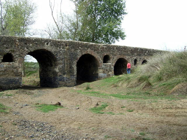 Roman bridge over the Odivelas river, municipality Cuba, Baixo Alentejo, Portugal